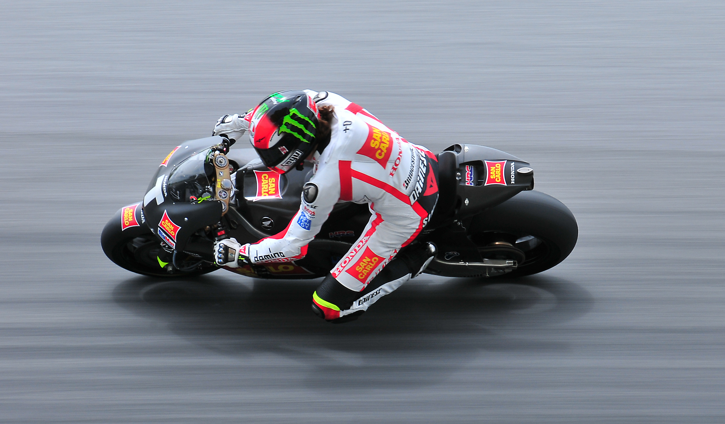 MotoGP 2011 Pre-Season Test 1 - Day # 3